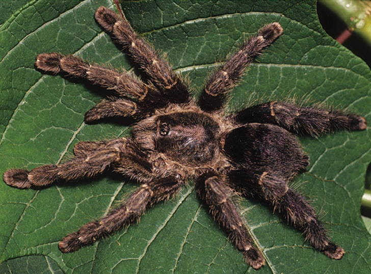 Avicularia purpurea female, southern form